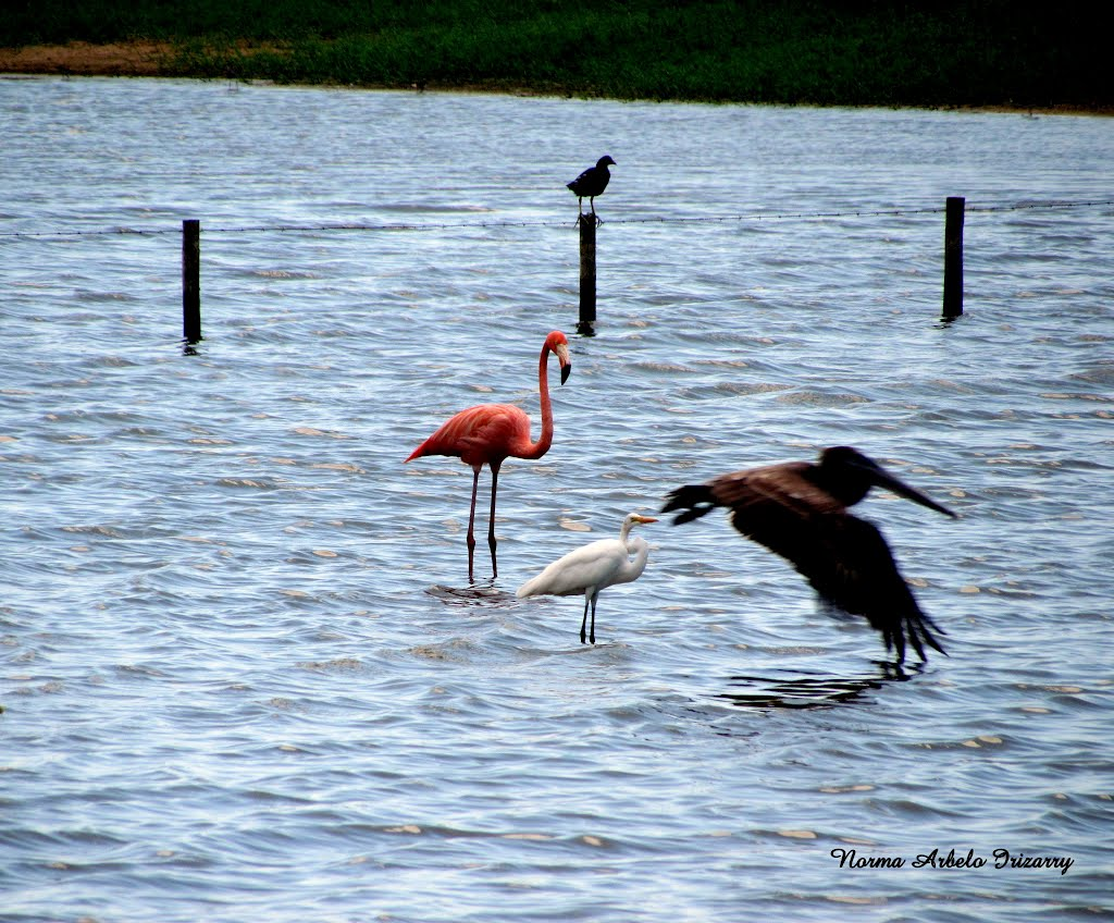 Flamenco and other birds in Camuy, Puerto Rico